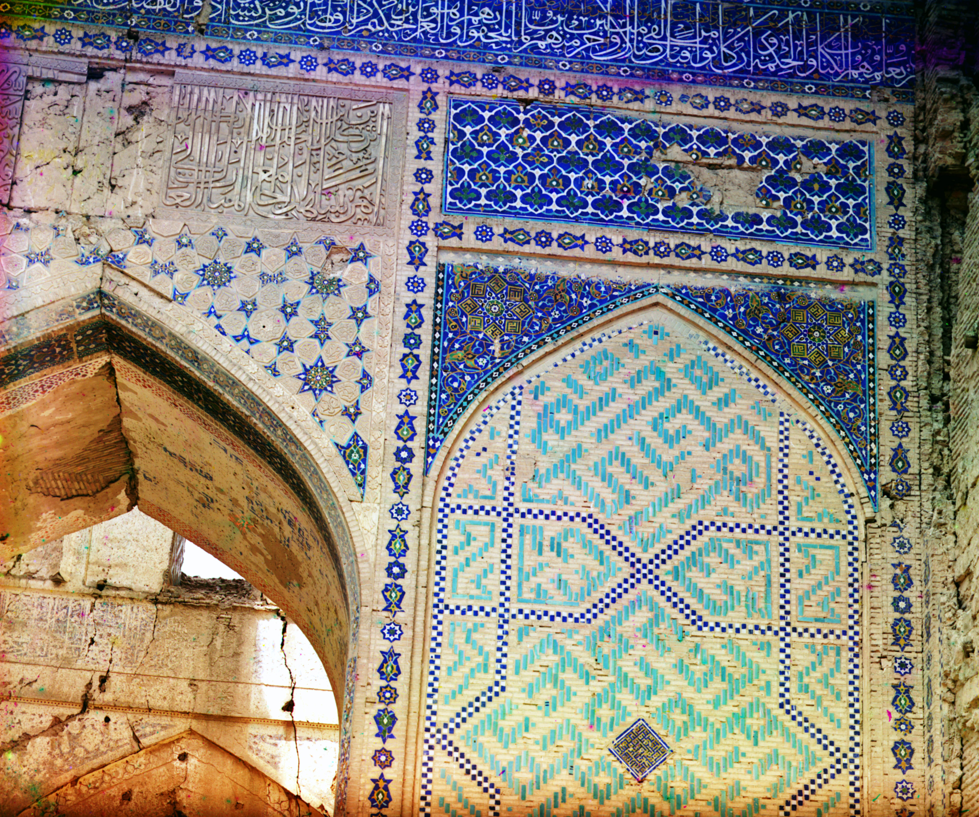 Above the main entrance to the Bibi-Khanym Mosque in Samarkand, Uzbekistan